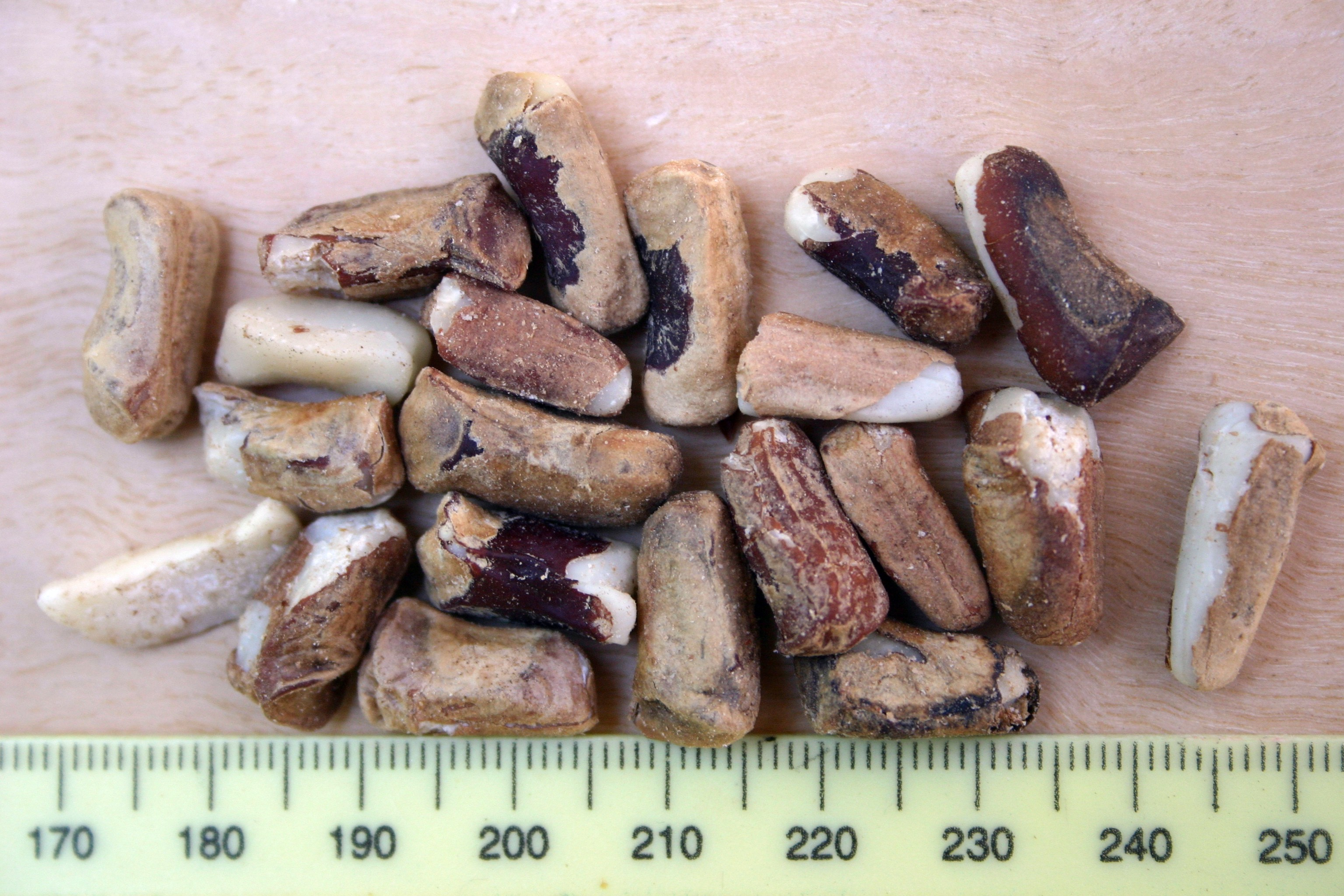 Marula Sclerocarya birrea seeds - own image